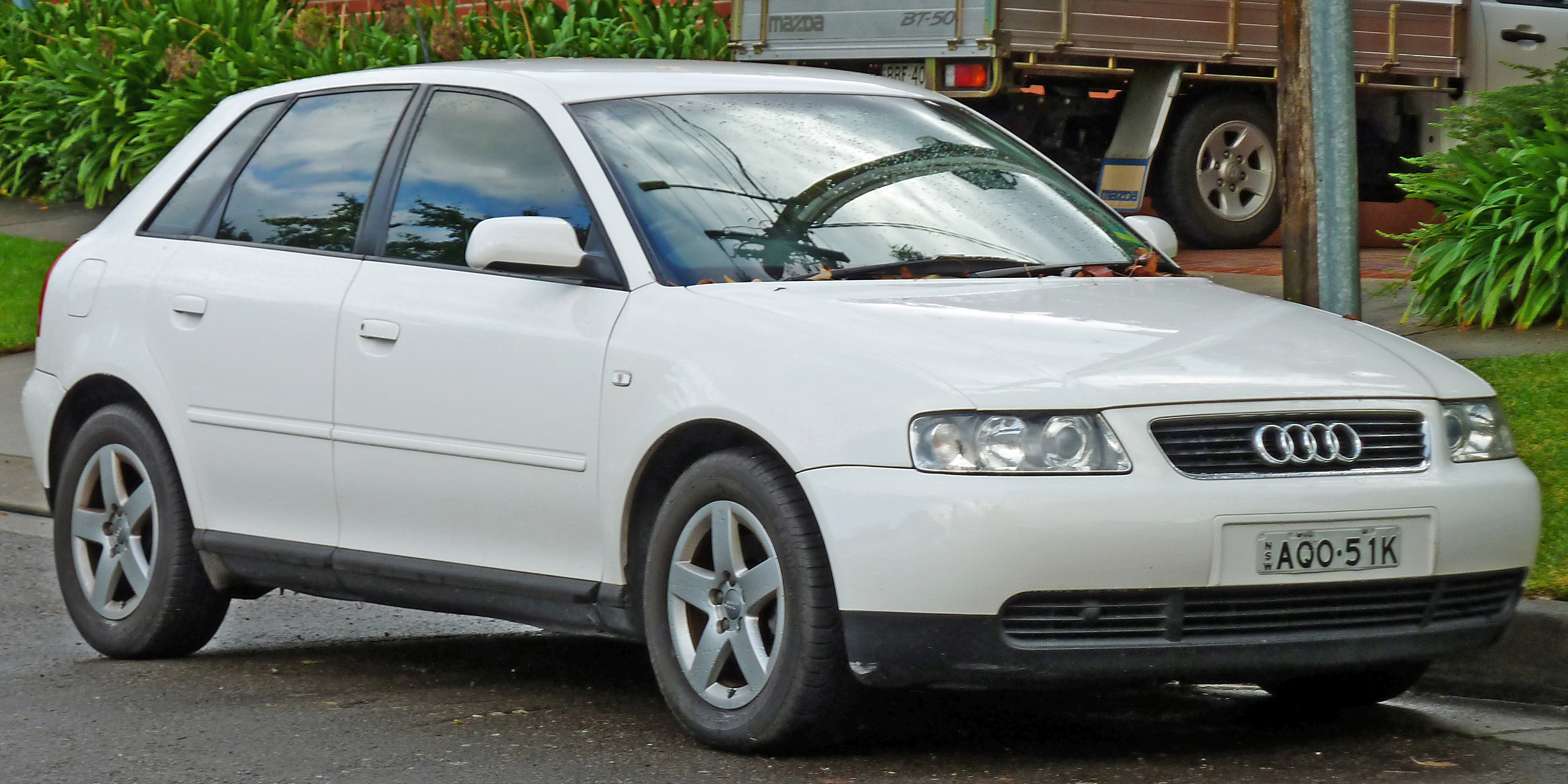 2000–2004 Audi A3 (8L) 1.8 5-door hatchback. Photographed in Lindfield, New South Wales, Australia.